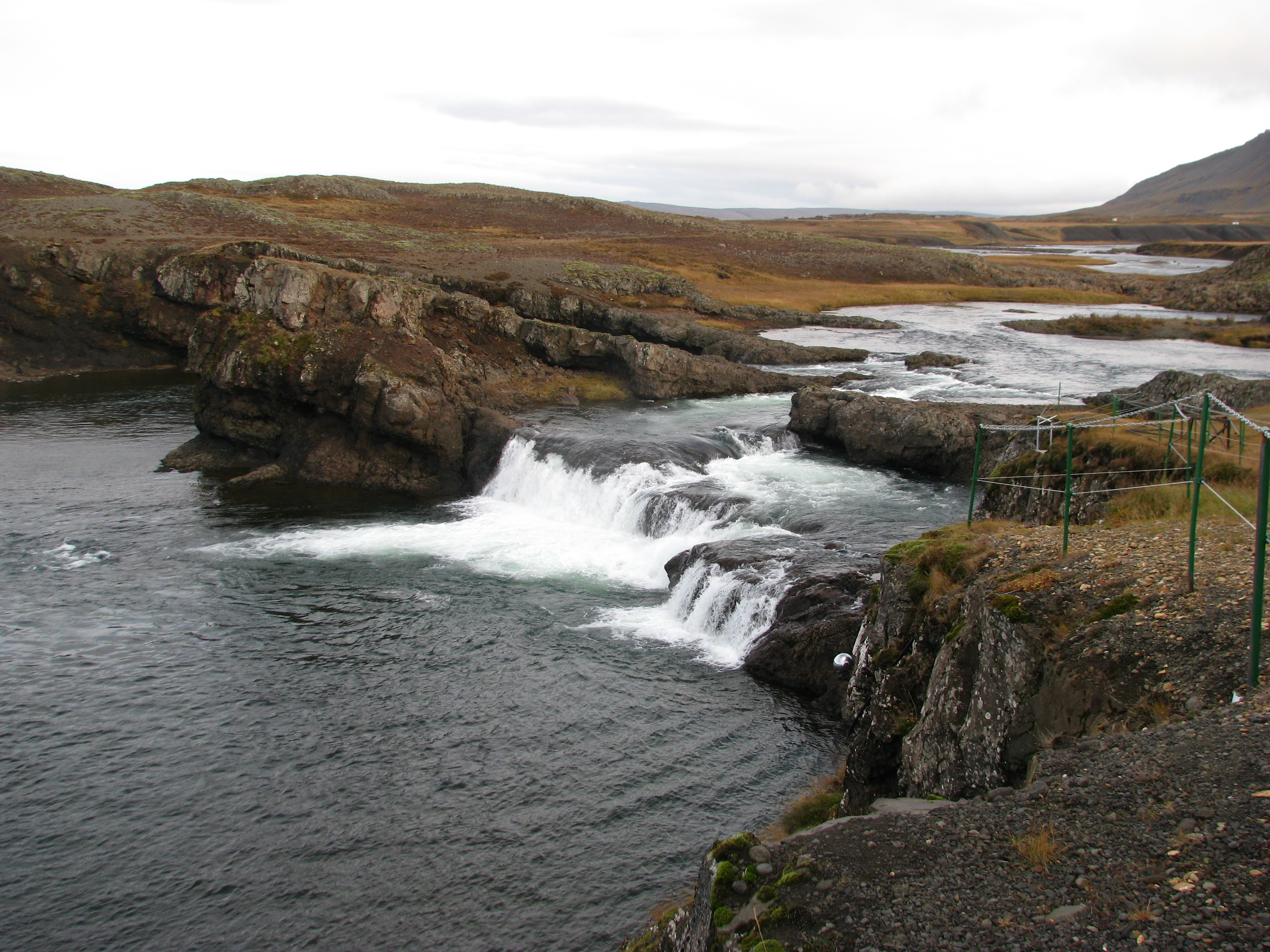 The Laxfoss (salmon waterfall), a waterfall in the Grímsá river, Iceland.